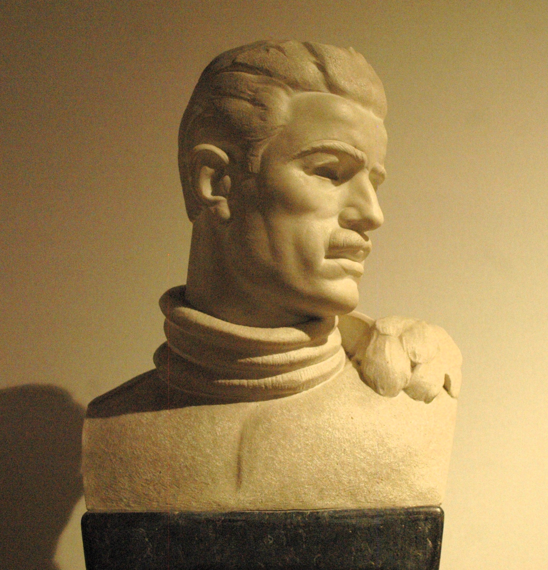 Enrico Toti statue in Vittoriano in Rome